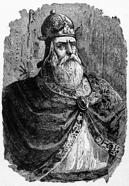 Tiridates III of Armenia illustration in 1898 book «Illustrated Armenia and Armenians»